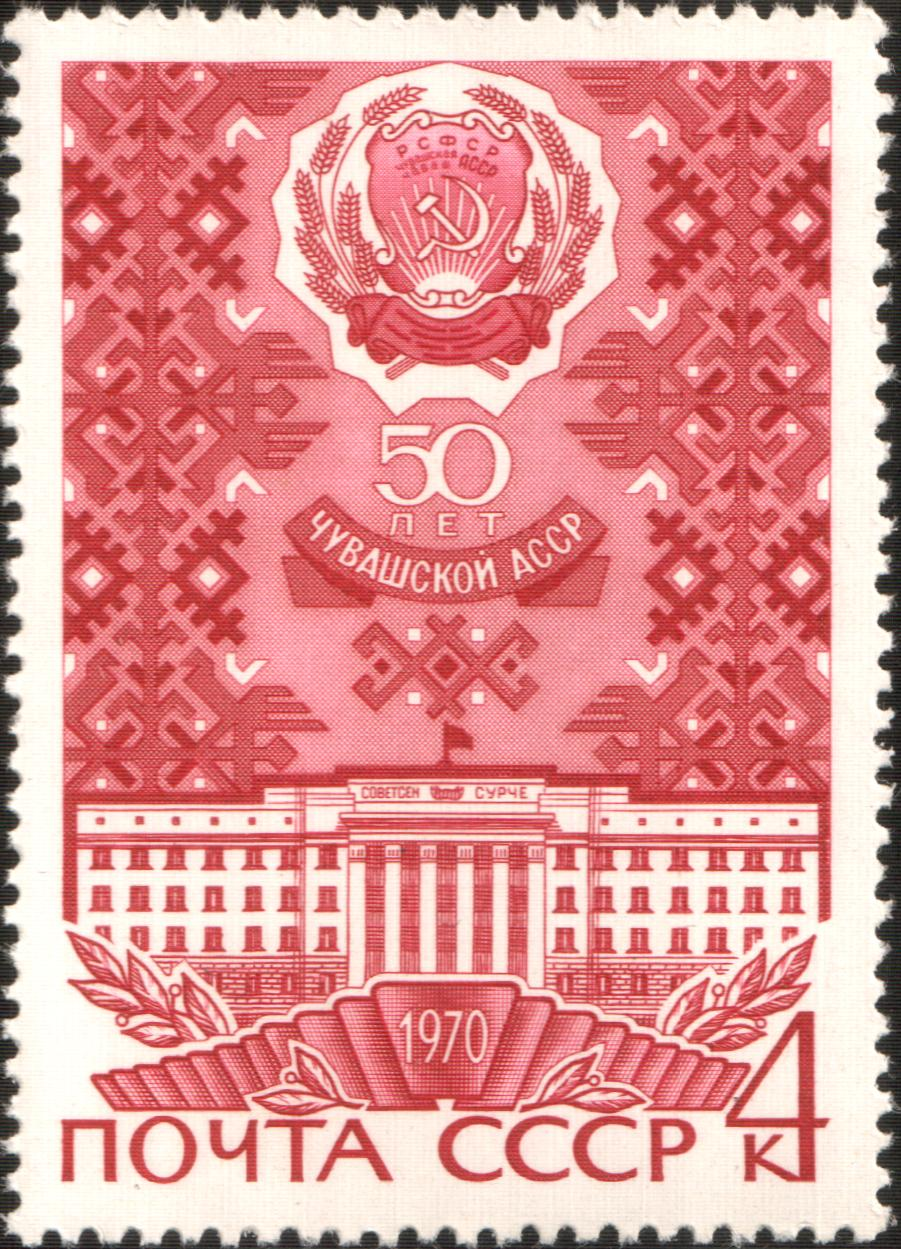 USSR stamp: Chuvash Autonomous Soviet Socialist Republic (Established on 1920.06.24). Series: 50th Anniversary of the Autonomous Republics of the Soviet Union